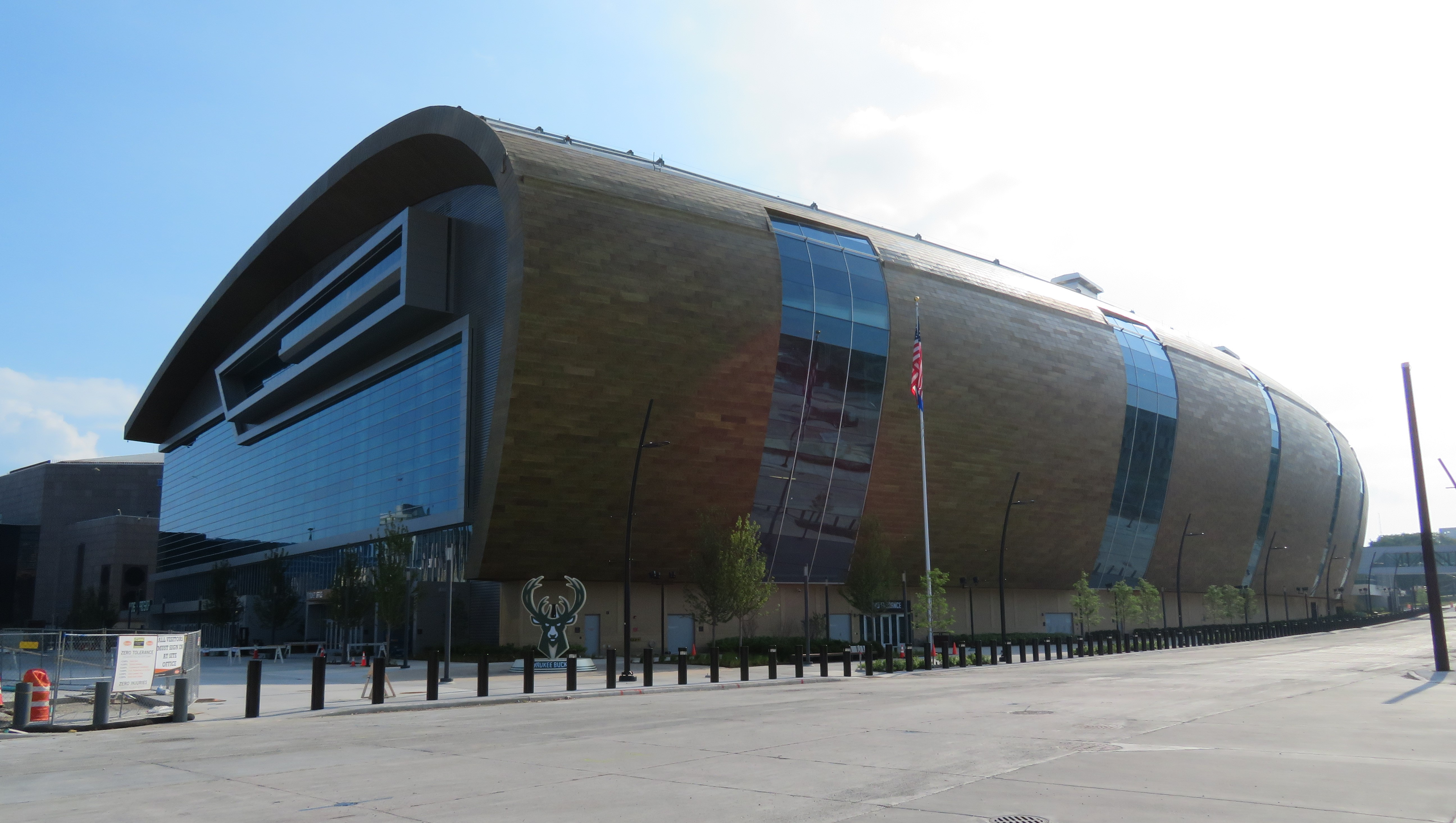 A look at the new Bucks arena from the northeast